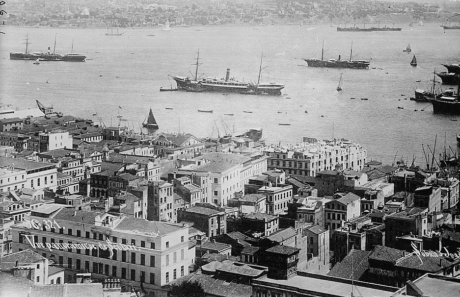 Beyoğlu, Istanbul (Üsküdar can be seen on the other side of the Bosphorus, and noted as Scutari, Turkey).